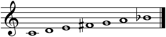 koobak correct name: highlander scale